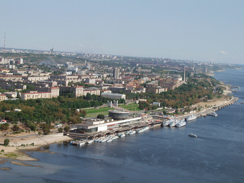 Central district of Volgograd.